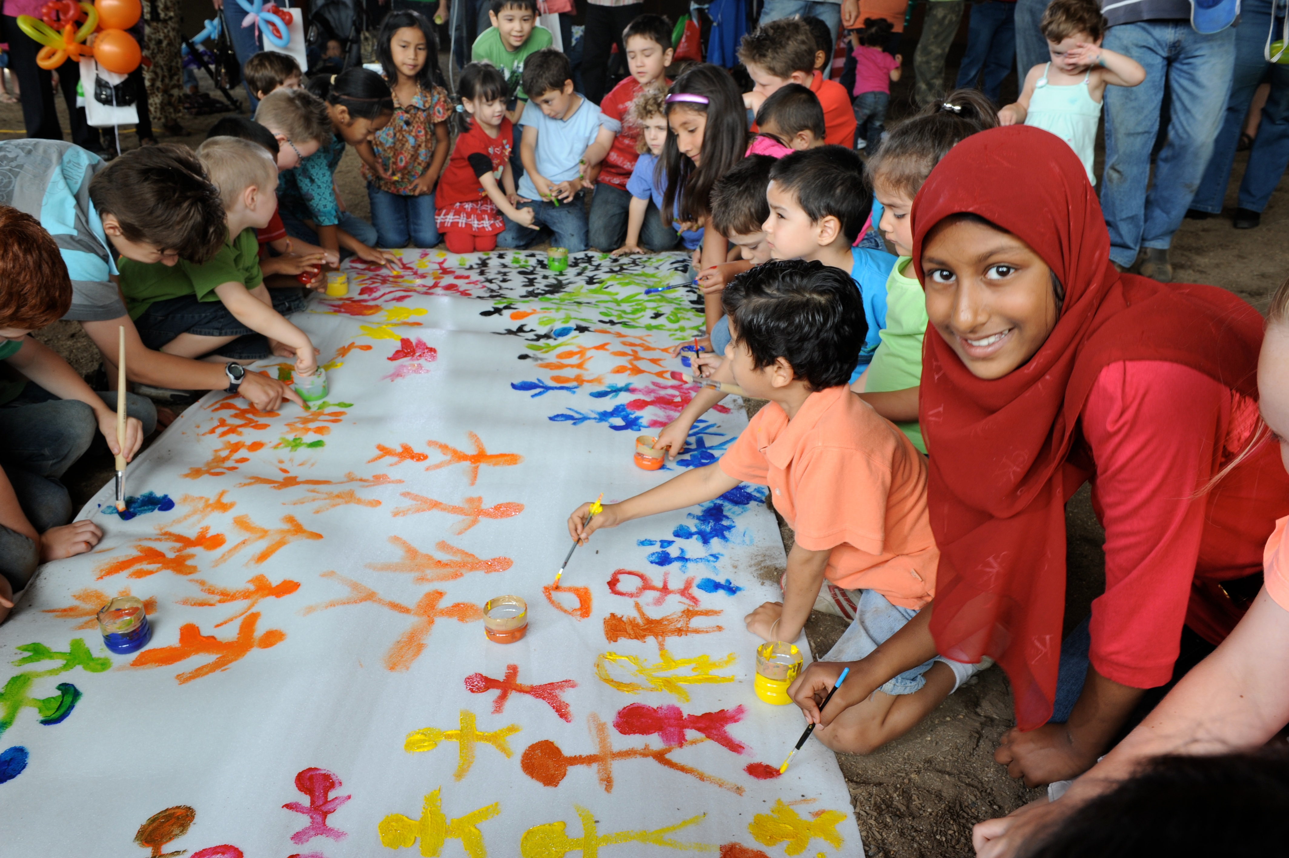 Harmony Day is celebrated around Australia on 21 March each year. It's a day where all Australians celebrate our cultural diversity